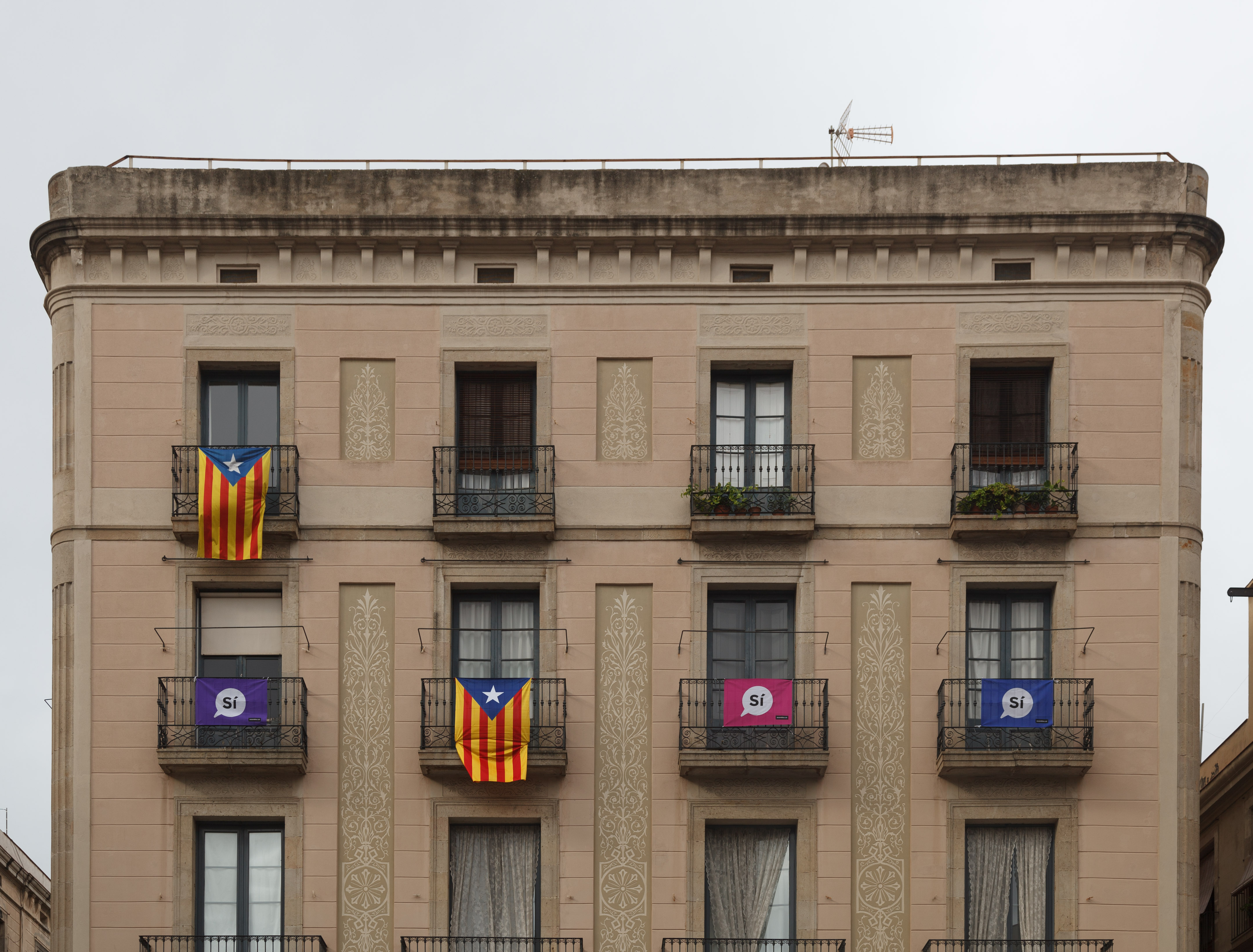 Pro-independentist flags in Barcelona during the campaign for the Catalan indepence referendum 2017. Wikipedia: Catalan independence referendum, 2017 See also category: Catalan independence referendum, 2017.